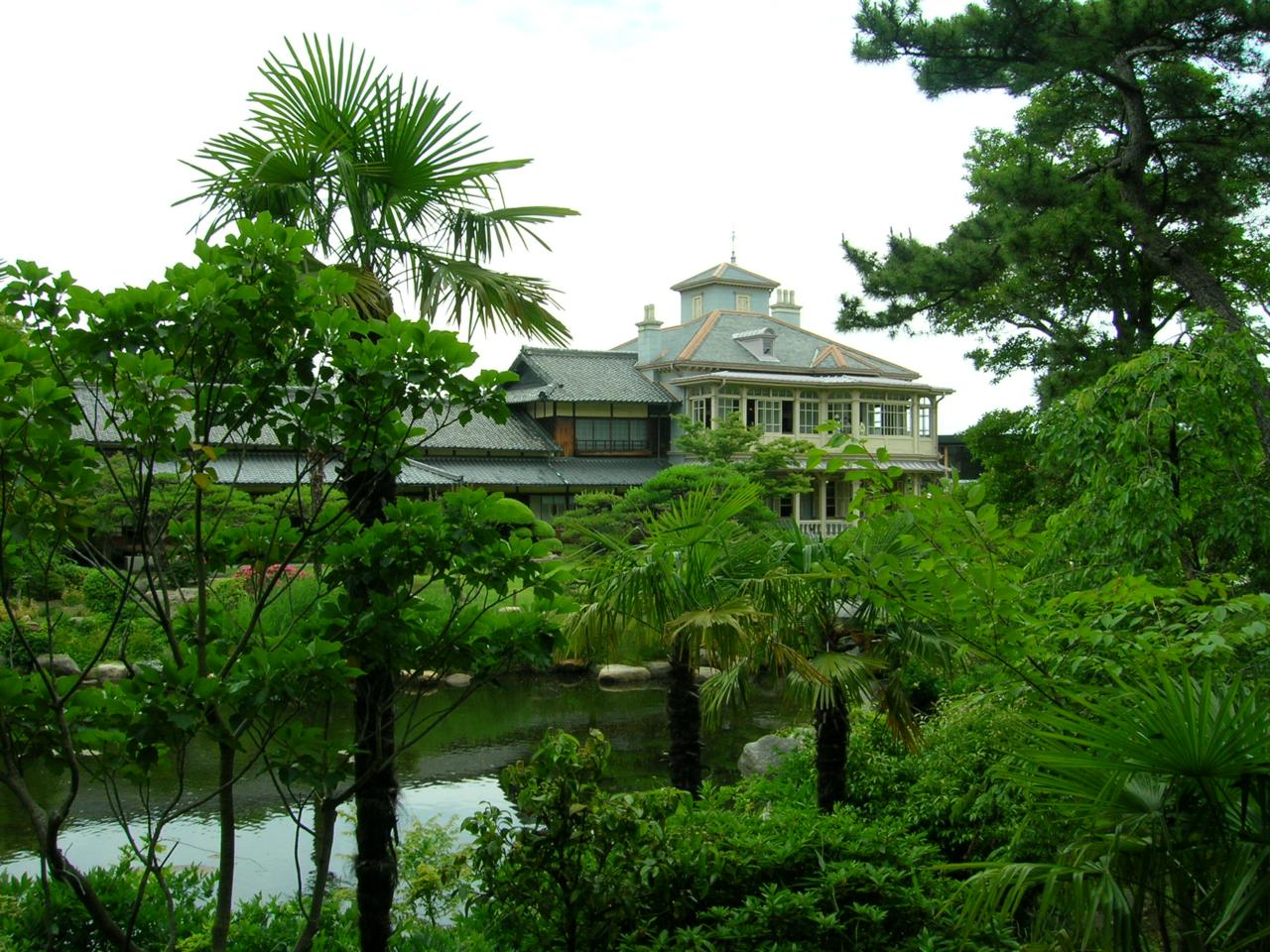 Rokka-en Appearance from garden. (Important Cultural Property: Seiroku Moroto II's Residence) Loc: Kuwana city, Mie Prefecture, Japan. ja: 六華苑 (旧・二代目諸戸清六邸)、庭からの様子 撮影場所 三重県桑名市